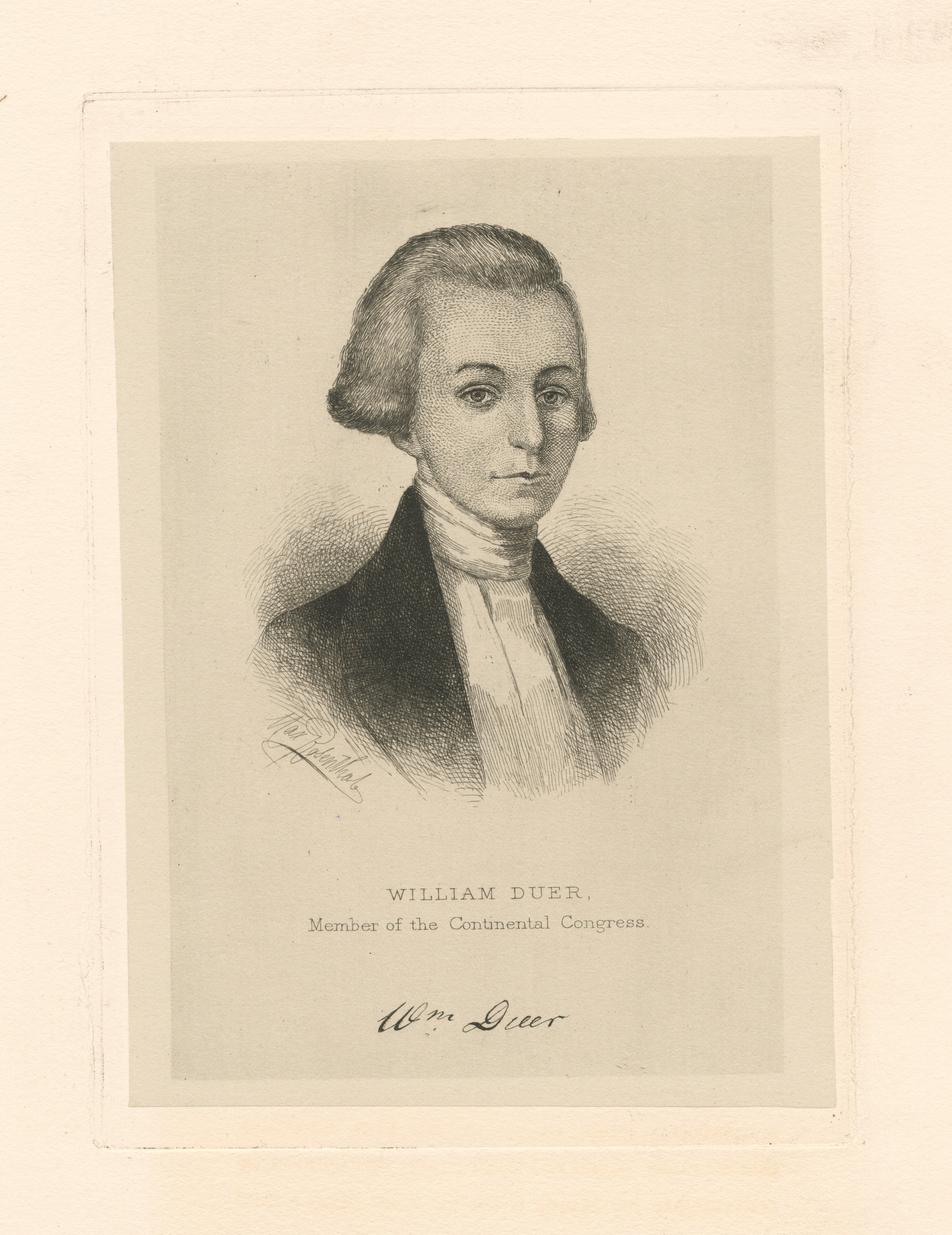 EM2624